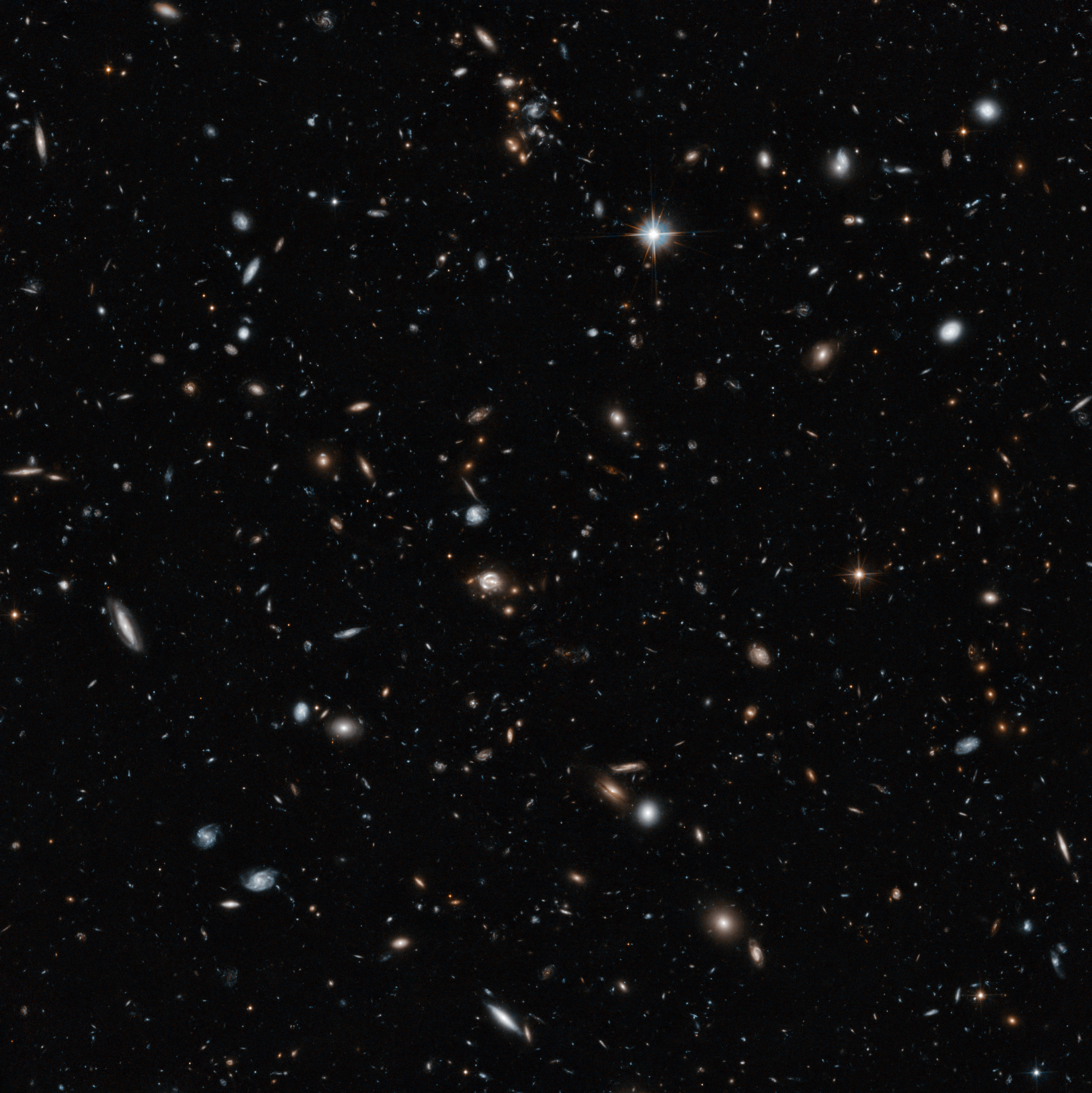 An image of a galaxy cluster taken by the NASA/ESA Hubble Space Telescope gives a remarkable cross-section of the Universe, showing objects at different distances and stages in cosmic history. They range from cosmic near neighbours to objects seen in the early years of the Universe. The 14-hour exposure shows objects around a billion times fainter than can be seen with the naked eye. Hubble’s images might look flat, but this one shows a remarkable depth of field that lets us see more than halfway to the edge of the observable Universe. Most of the galaxies visible here are members of a huge cluster called CLASS B1608+656, which lies about five billion light-years away. But the field also contains other objects, both significantly closer and far more distant, including quasar QSO-160913+653228 which is so distant its light has taken nine billion years to reach us, two thirds of the time that has elapsed since the Big Bang.